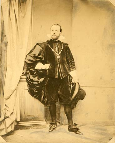 The german painter Ludwig von Hagn (1820-1898)